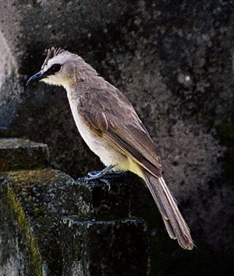 Yellow vented Bulbul, photograph taken by myself in Bali.